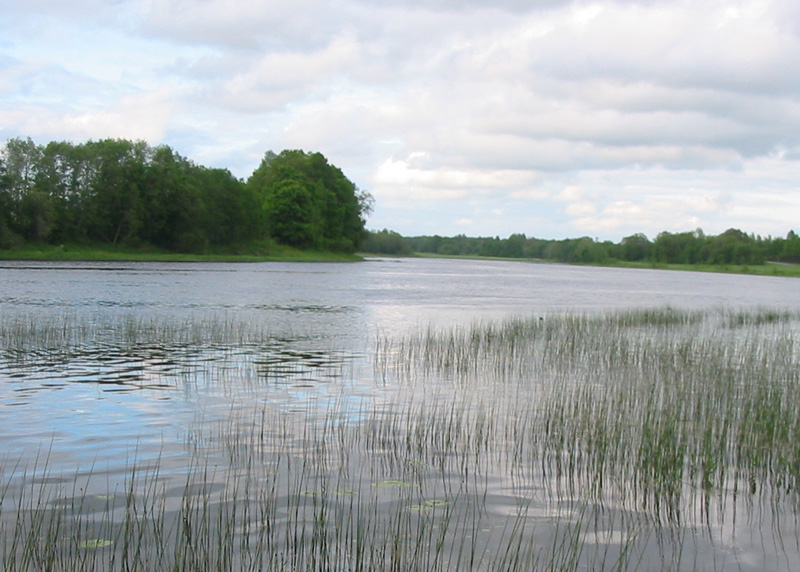 The Pärnu River, Estonia.